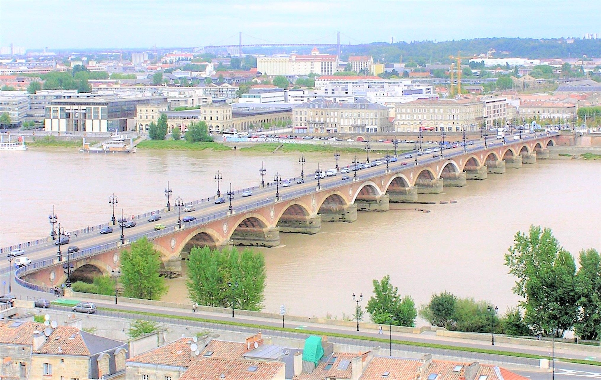 Bordeaux: "Pont de Pierre" bridge seen from St Michel church spire